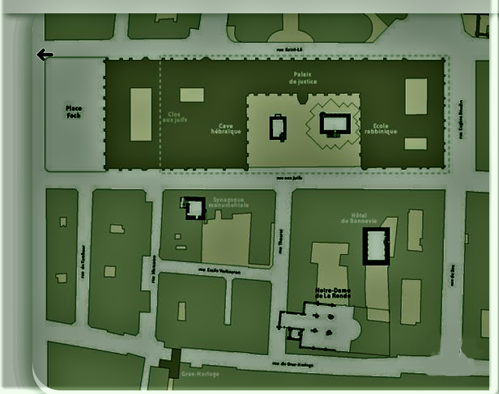 גטו רואן, צרפת